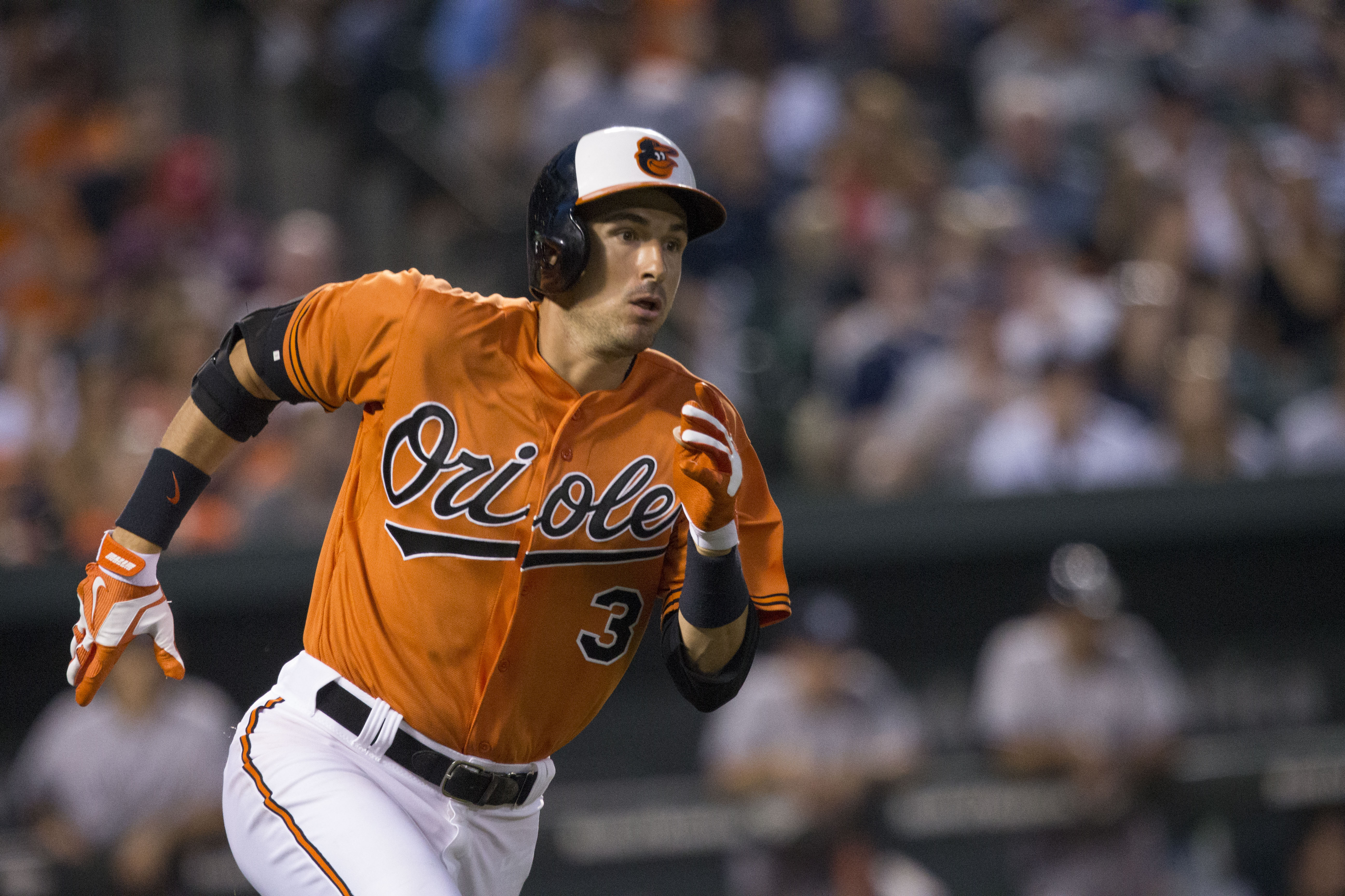 Yankees at Orioles 6/13/15